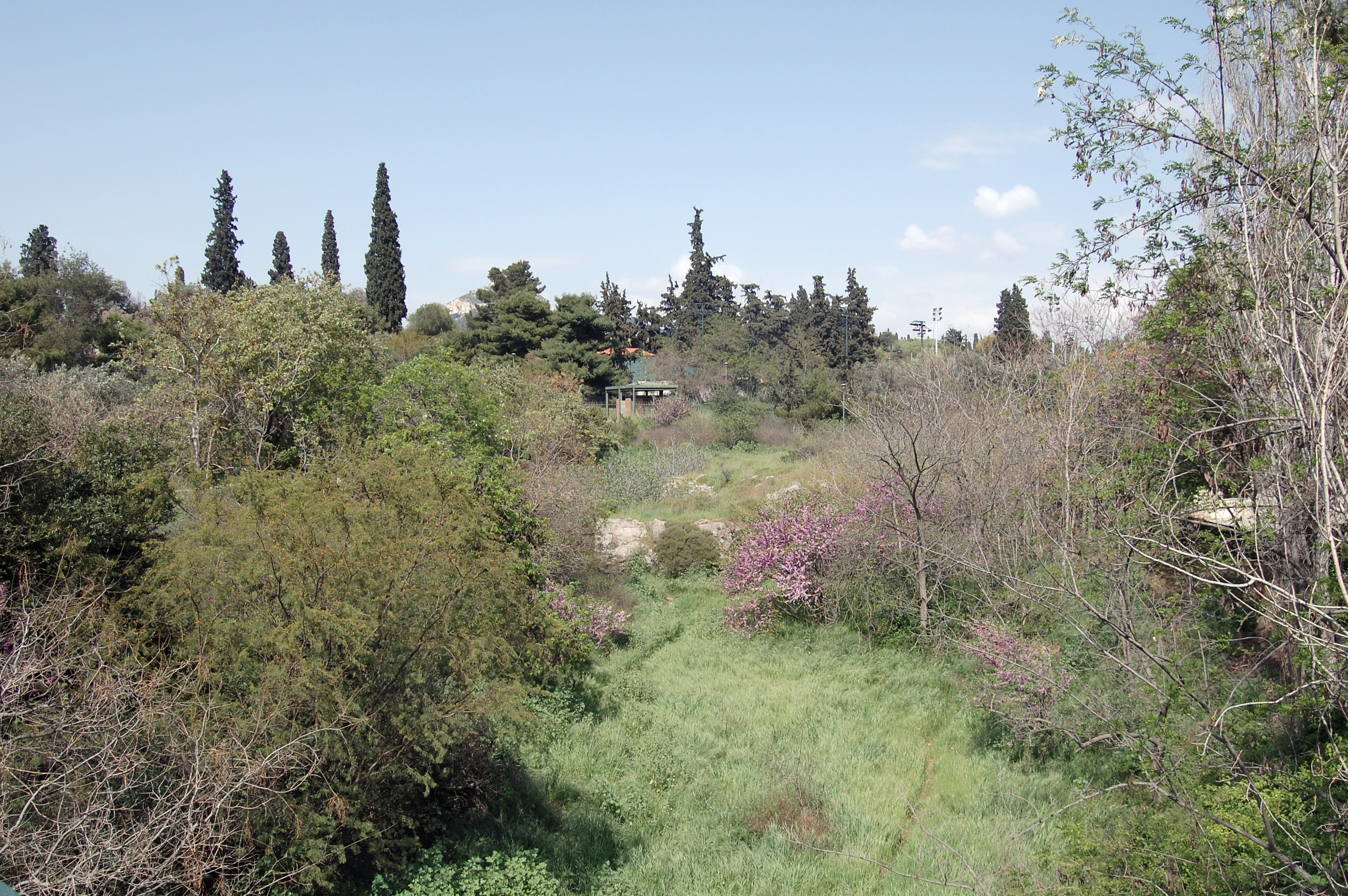 The only uncanalised part of the bed of Ilissos river that once ran outside the old city of Athens.